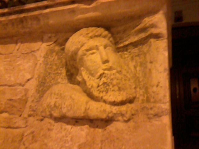 Jew medieval Martina Franca?